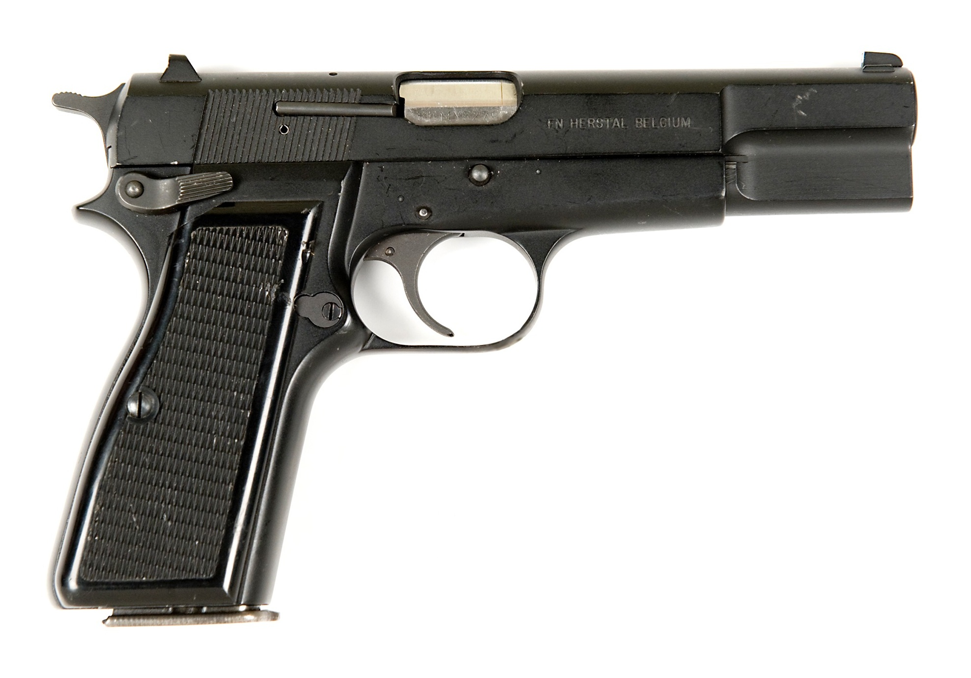 Picture of Fabrique Herstal Make: Fabrique Nationale Herstal Model: Hi Power Caliber: 9mm